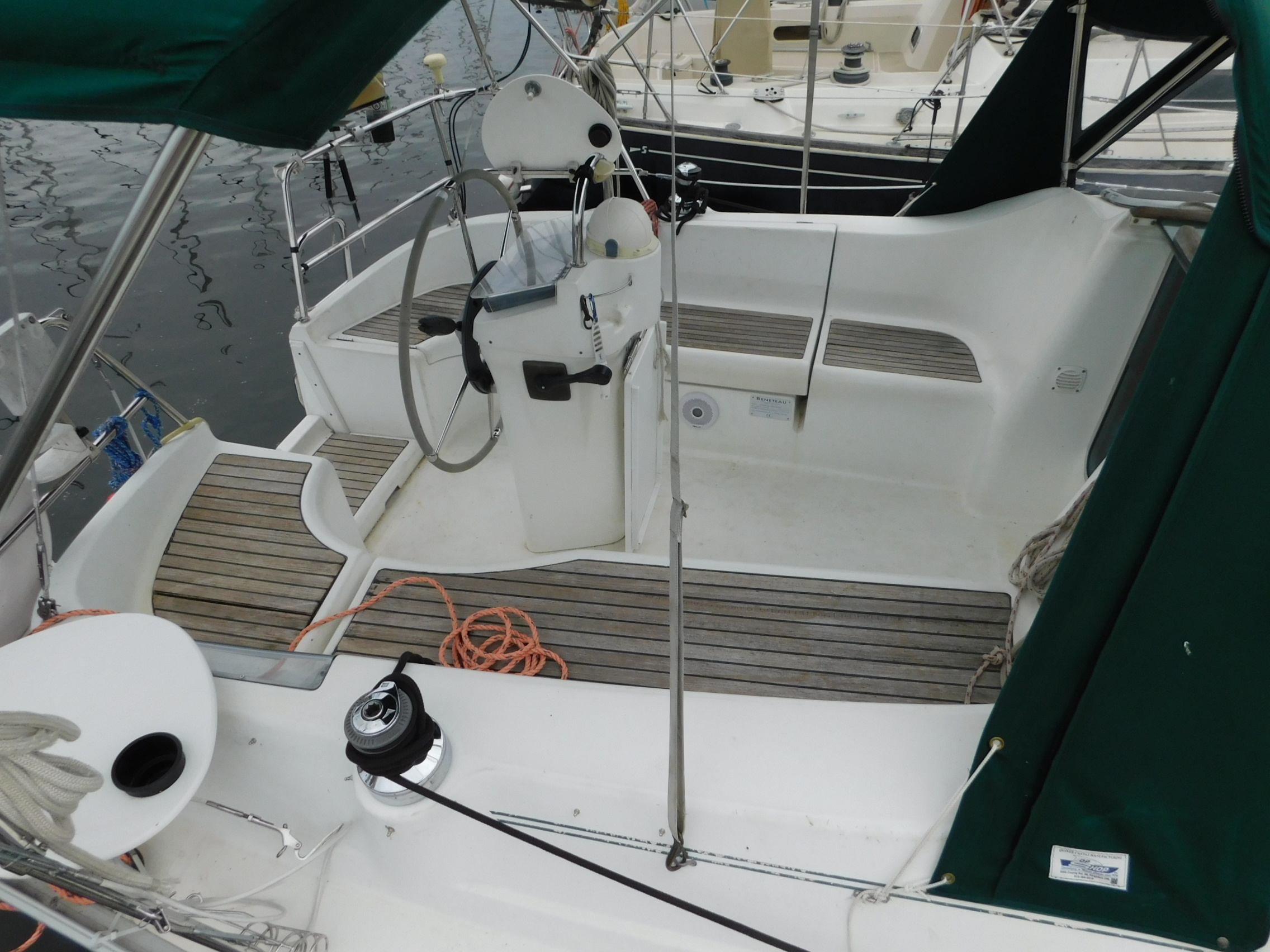 The cockpit of a Beneteau 331 sailboat named Me Minou.